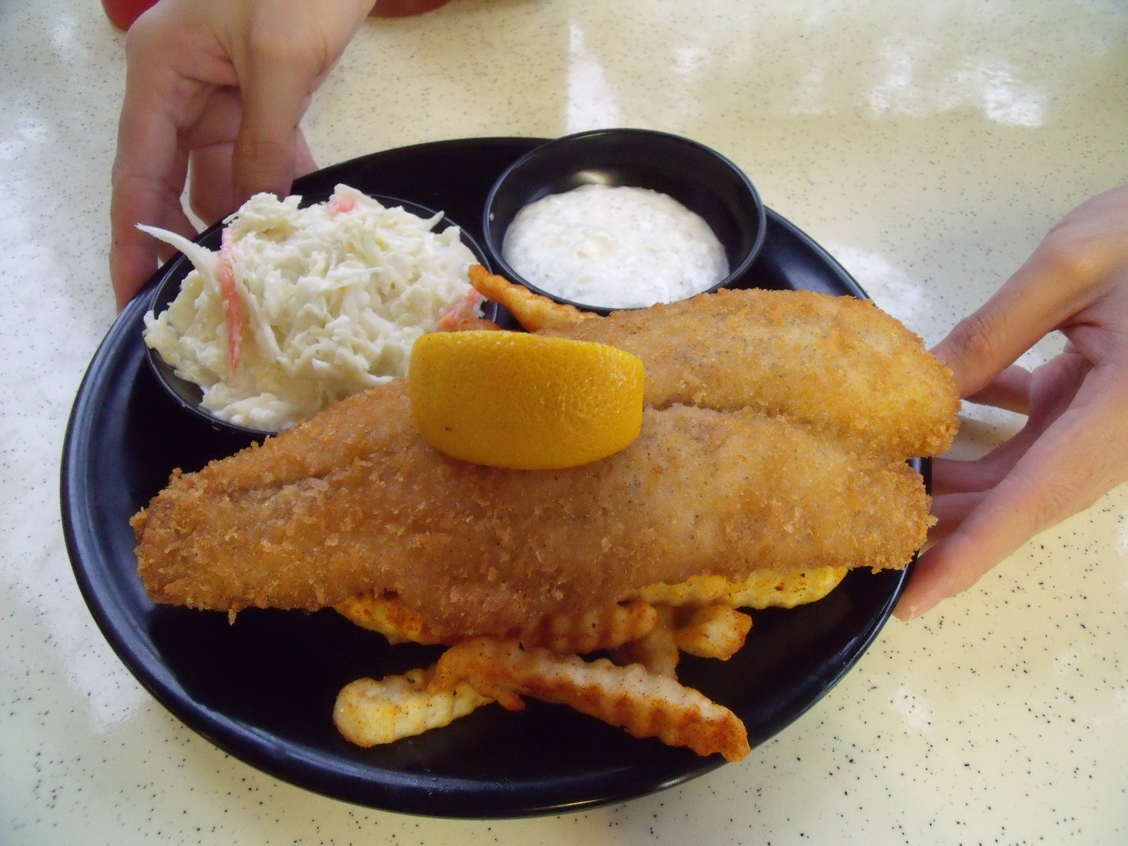 David and his fish and chips.